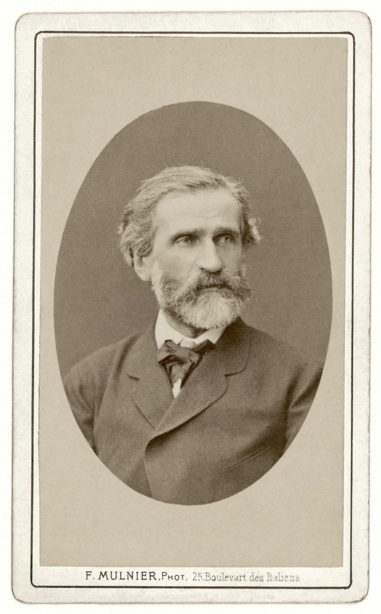 Giuseppe Verdi (1813-1901)